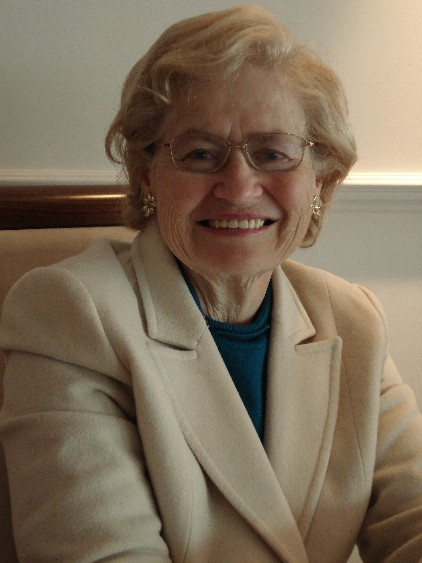 Picture of development and finance economist Stephany Griffith-Jones